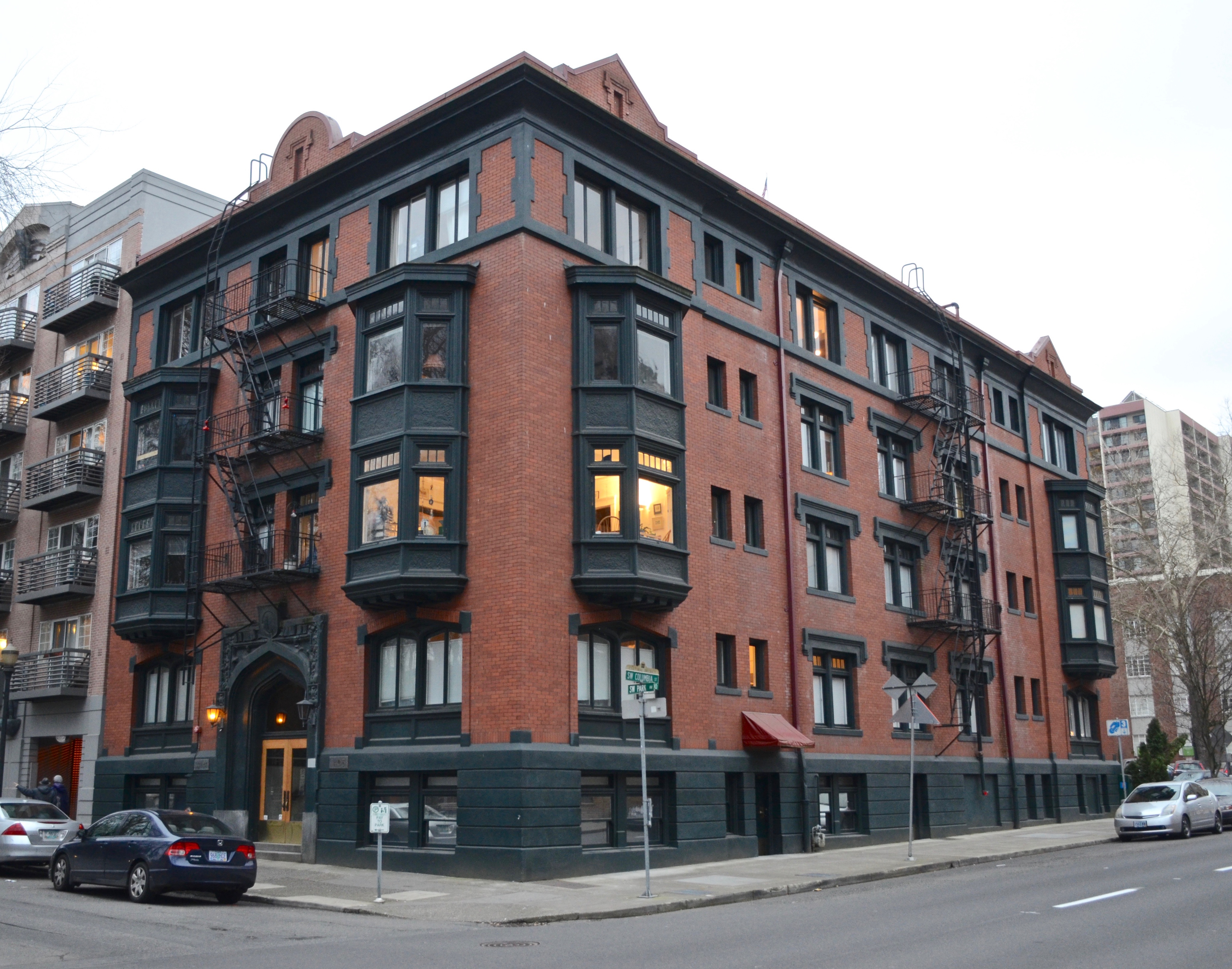 The Cumberland Apartments, at 1405 SW Park Avenue in Portland, Oregon, are listed on the U.S. National Register of Historic Places. This view is from the east, across intersection of Park Avenue (at left) and Columbia Street (at right). Portland, Oregon